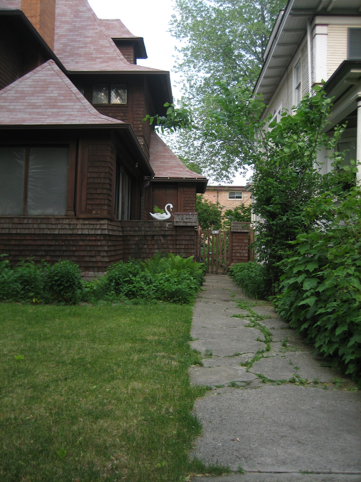 The George W. Smith House, designed by Frank Lloyd Wright in 1895, built in 1898 and located in the Chicago suburb of Oak Park, Illinois. Contributing property to the Ridgeland-Oak Park Historic District listed on the U.S. National Register of Historic Places